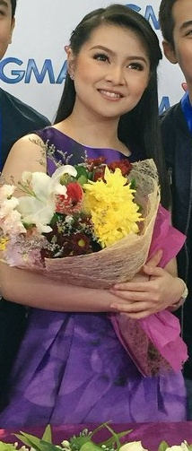 Barbie Forteza at the Meant to Be production presentation, November 2016